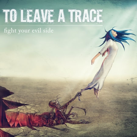 Cover of Fight Your Evil Side, To Leave A Trace first album.